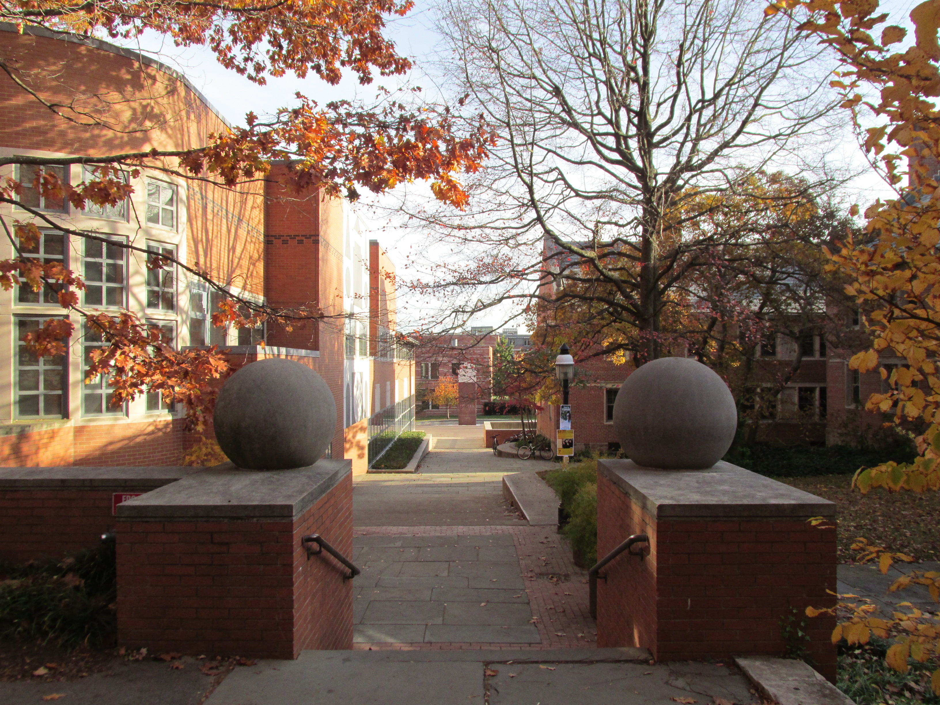 Entrance, Butler College, Princeton University, Princeton New Jersey - 2013